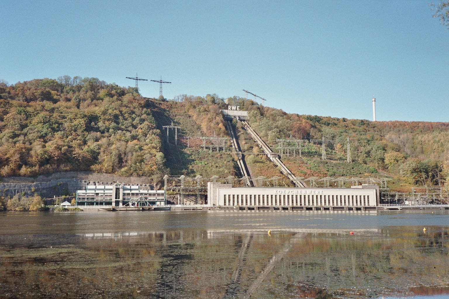 The Koepchenwerk power station nearby Hagen (Westphalia) in Germany